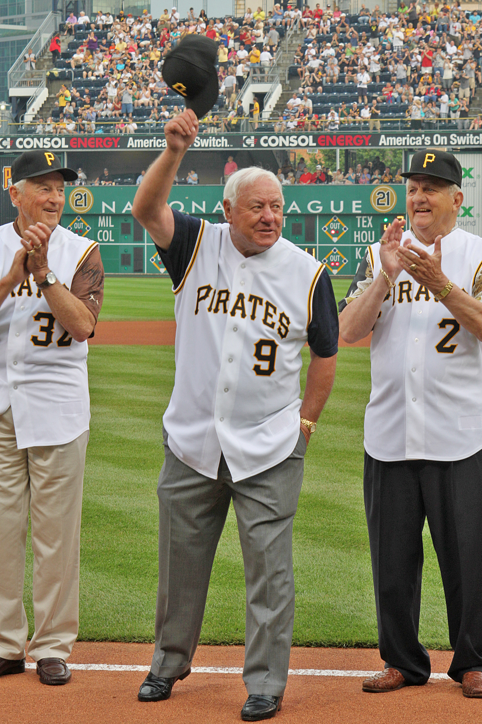 Bill Mazeroski tips his cap to the crowd during the 1960 World Series anniversary celebration at PNC Park in Pittsburgh, Pennsylvania. Vern Law and Bob Oldis are on either side of him.